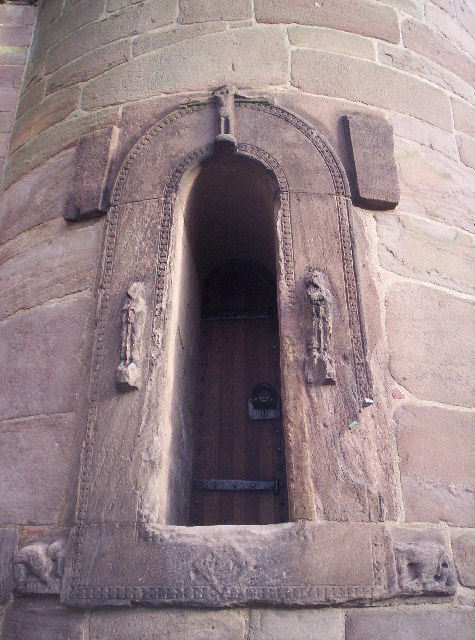 Door to Brechin Round Tower The door is 6 feet above ground level, making it harder for attackers as the tower is where the towns folk went with all their valuables. The arch is carved from one stone. The figure at the top is Christ on the cross. The figures on either side are unknown Saints and the doorway is protected by a beast on either side at the bottom.